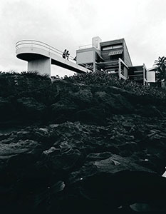 Copyright © 2018 Max Toro Mattei. Casa de la punta (House at Breñas Point). View from coast. Designed by Segundo Cardona FAIA.